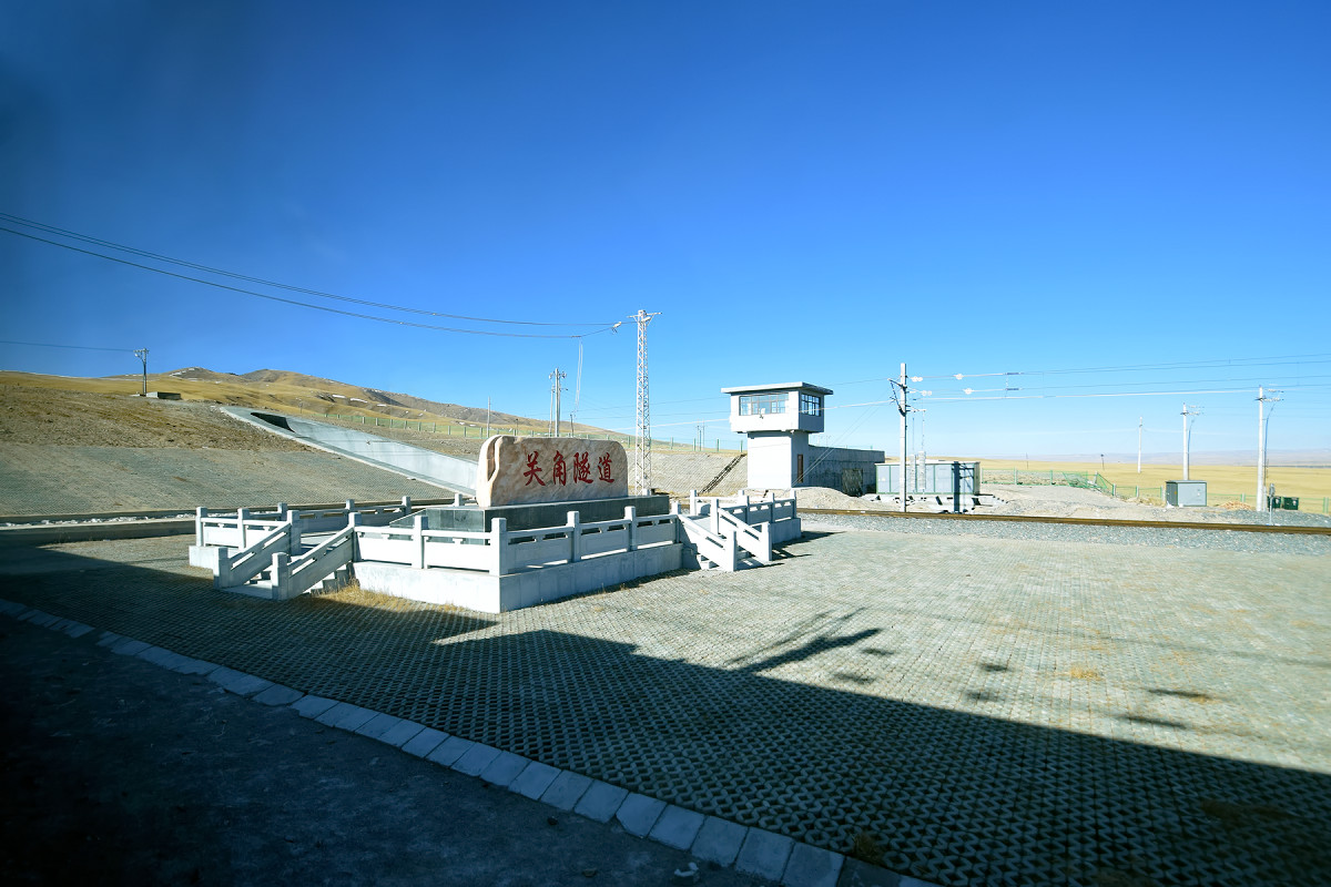 New Guanjiao Tunnel, longest railway tunnel in China (32.645km, ASL 3380.75m at entrance)